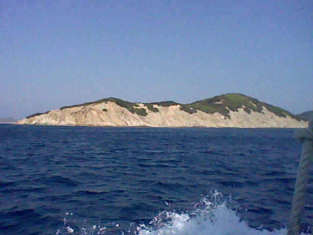 Tsougriaki isle, Skiathos